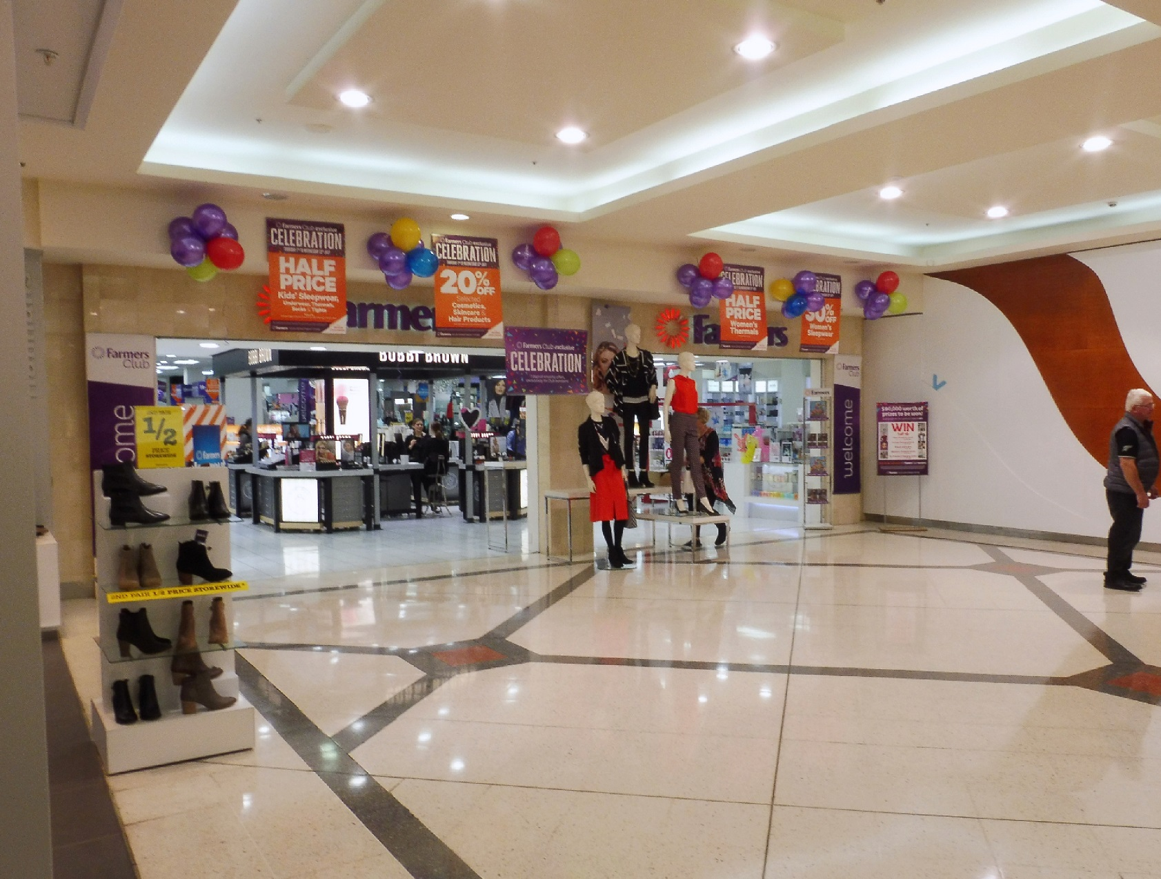 New Zealand department store retailer Farmers Westfield Riccarton store in Christchurch in 2016.